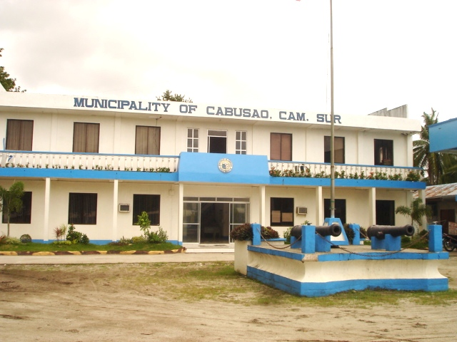 Municipal building of Cabusao, Camarines Sur, Philippines